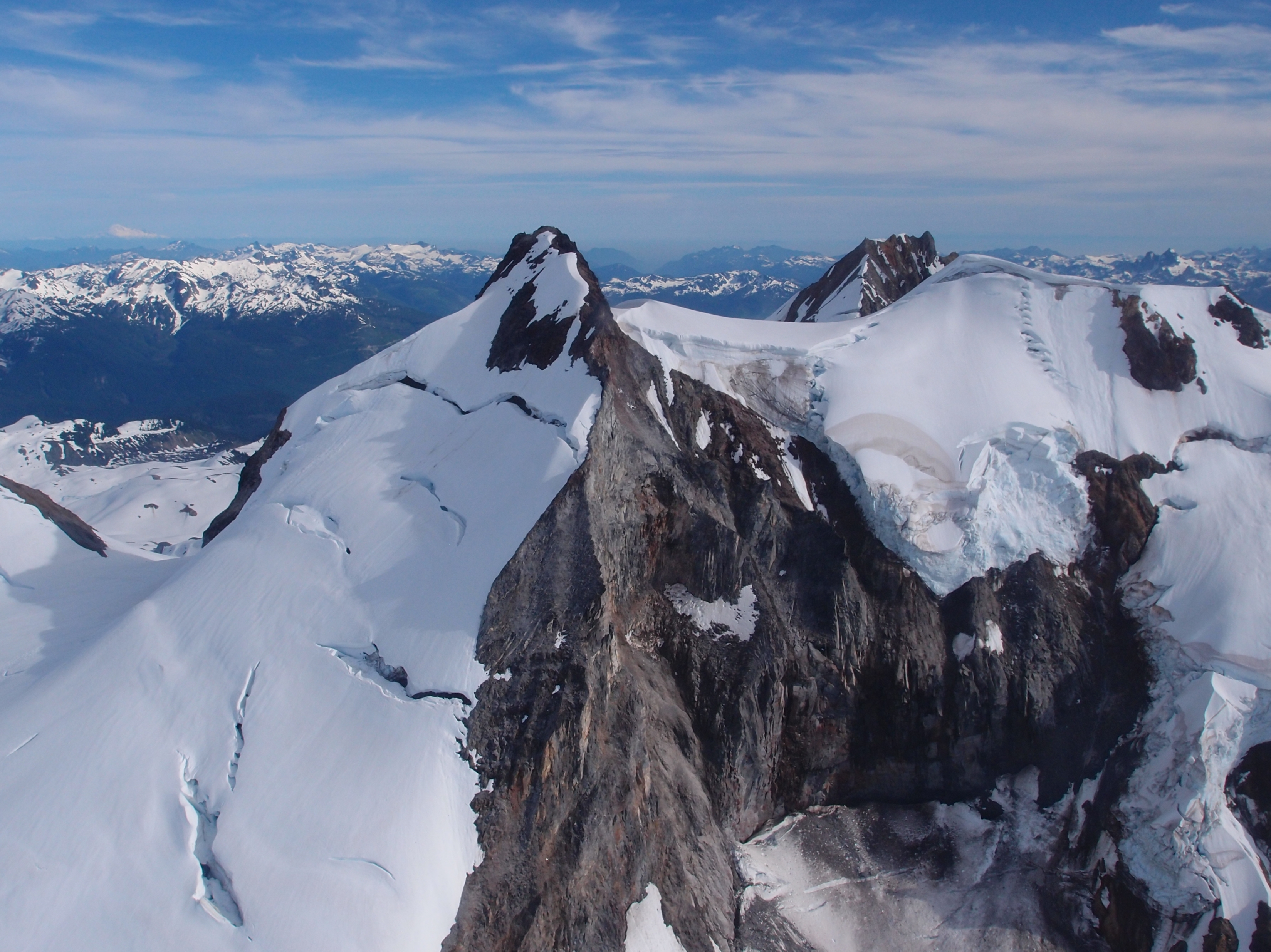 Mount Garibaldi from seaplane